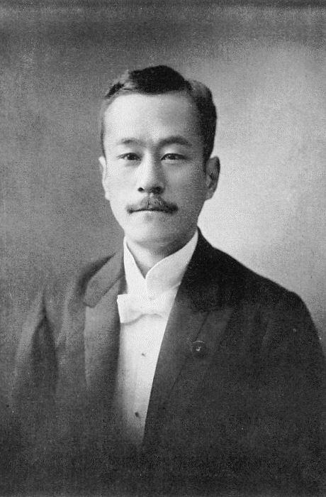 Masaware Takegoshi